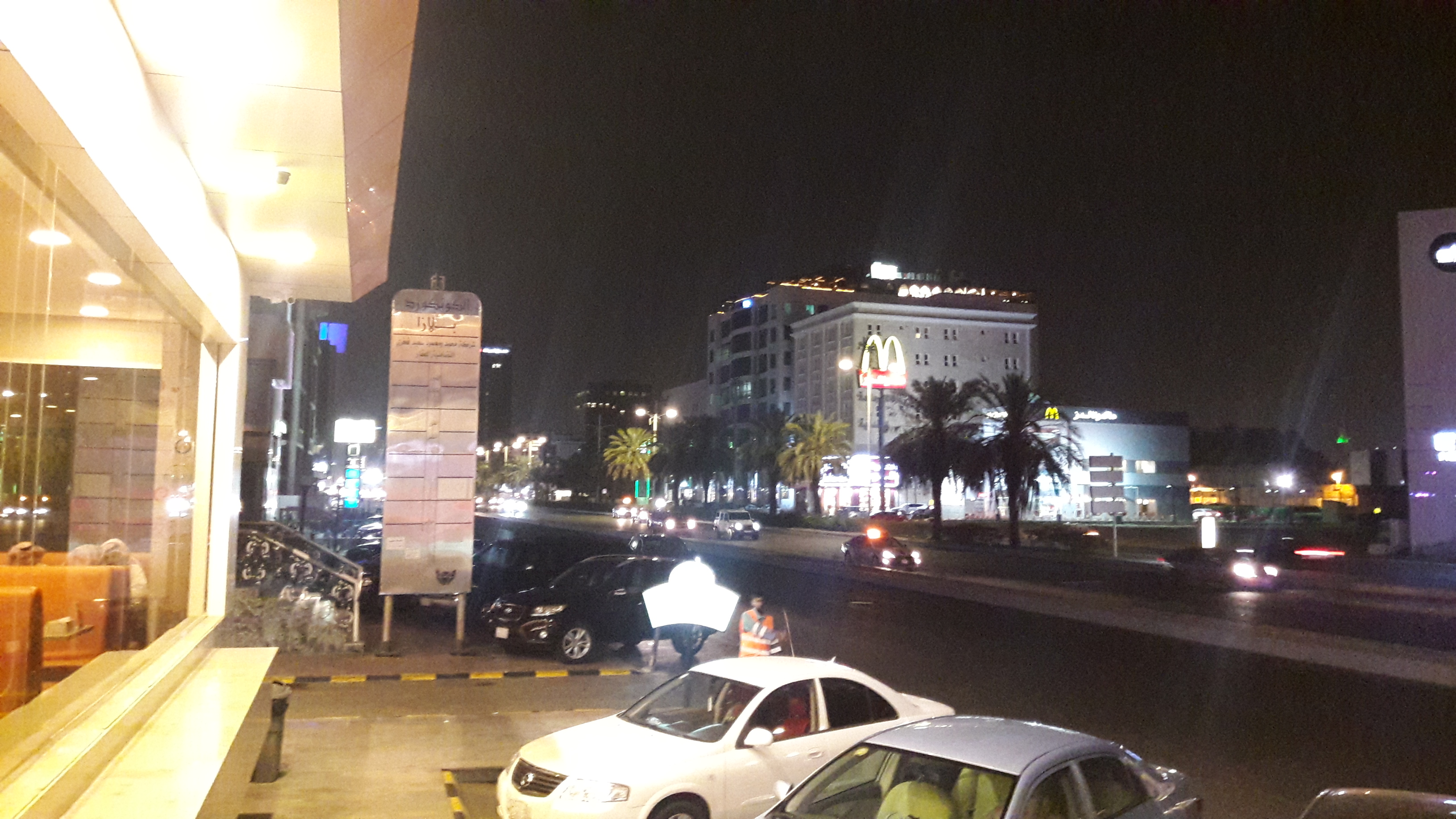 Prince Mohammed bin Abdulaziz Road